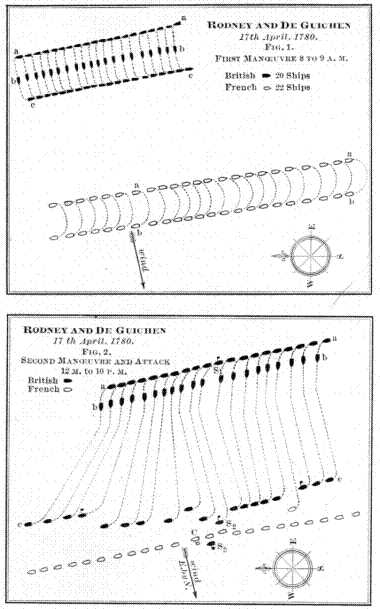 Rodney and de Guichen, 17 April 1780; Battle of Martinique